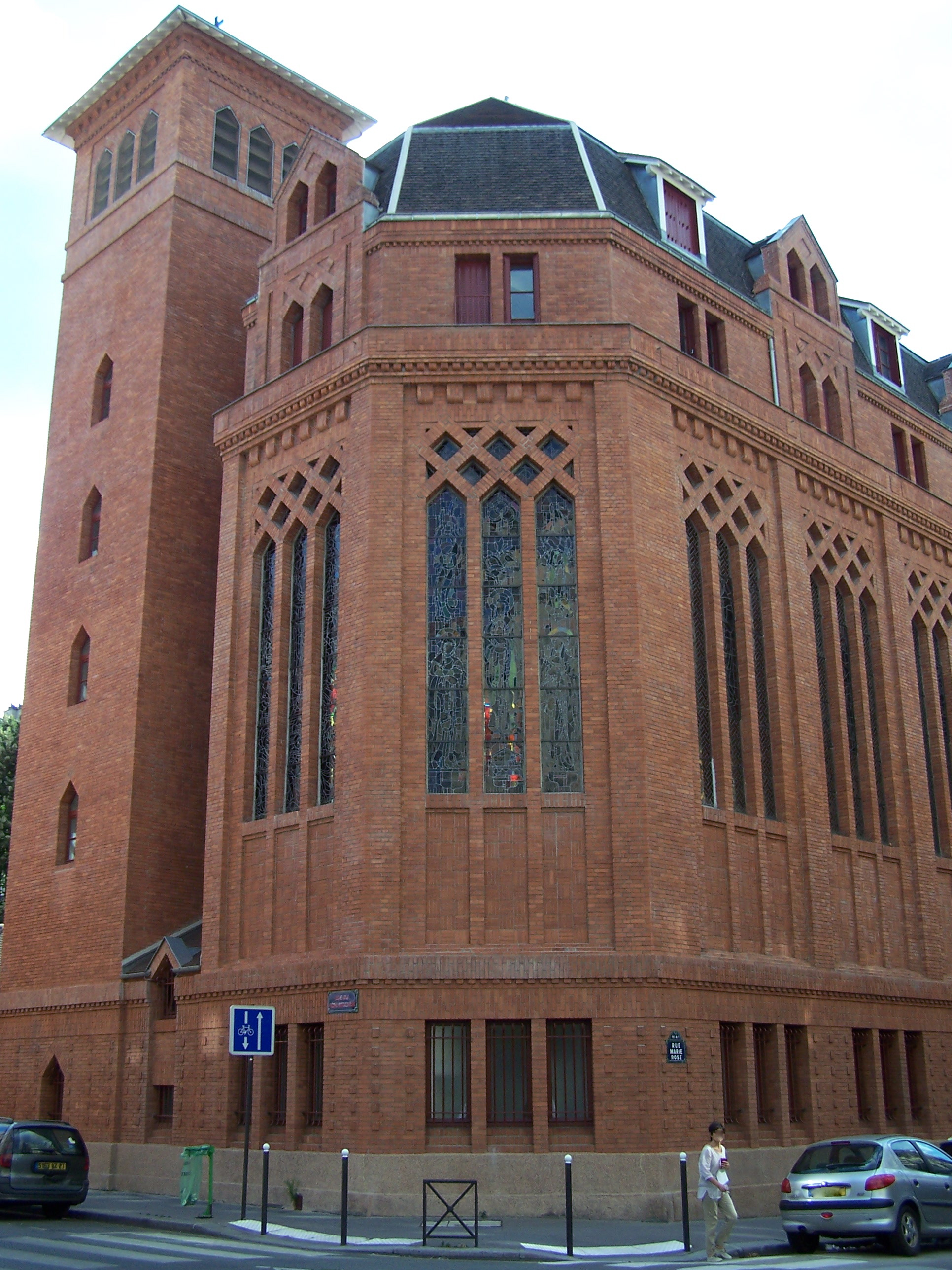 View of the Franciscan Covent at rue Marie-Rose in Paris